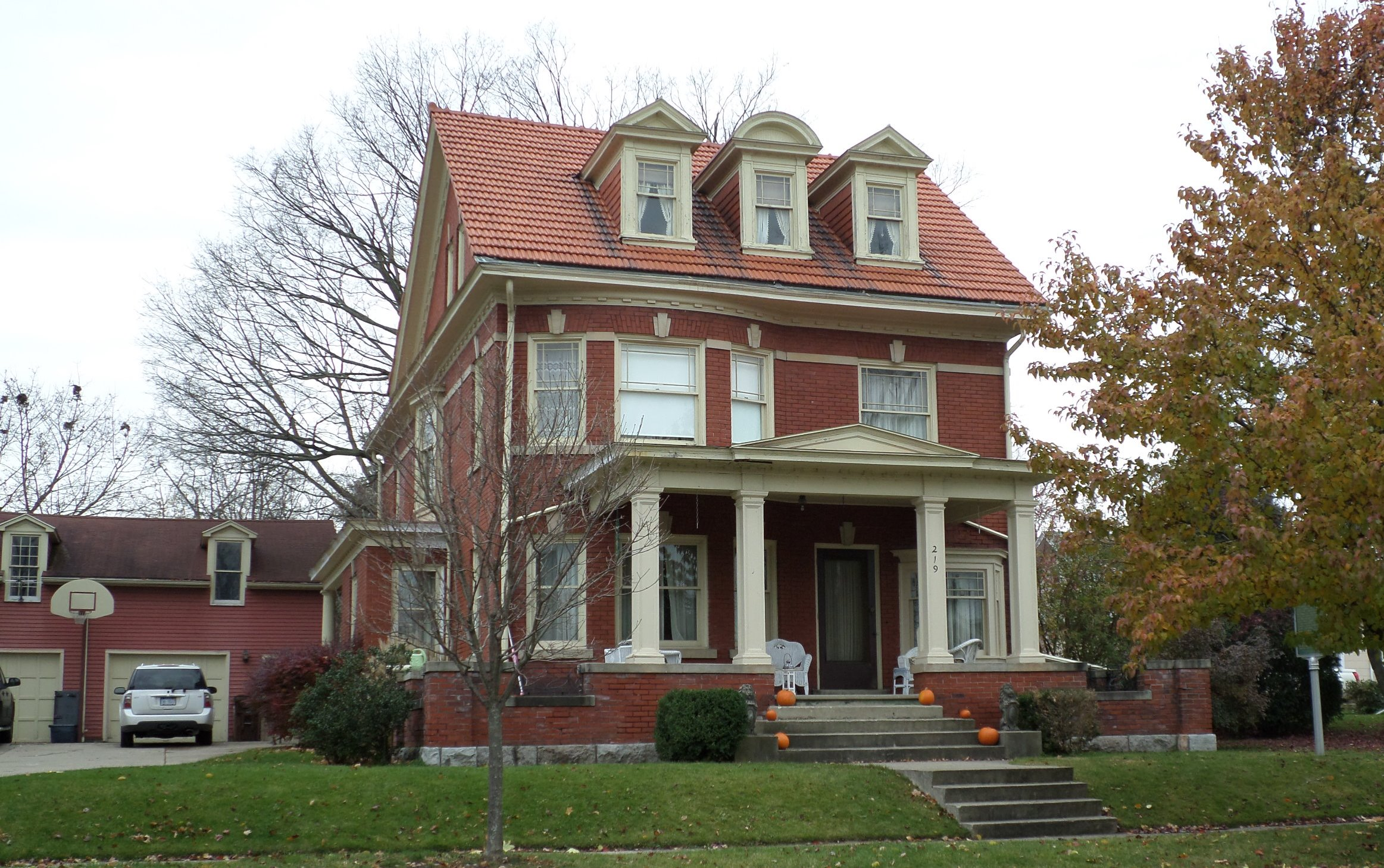 The Governor Frank Fitzgerald House, located at 219 W. Jefferson St, Grand Ledge, MI.